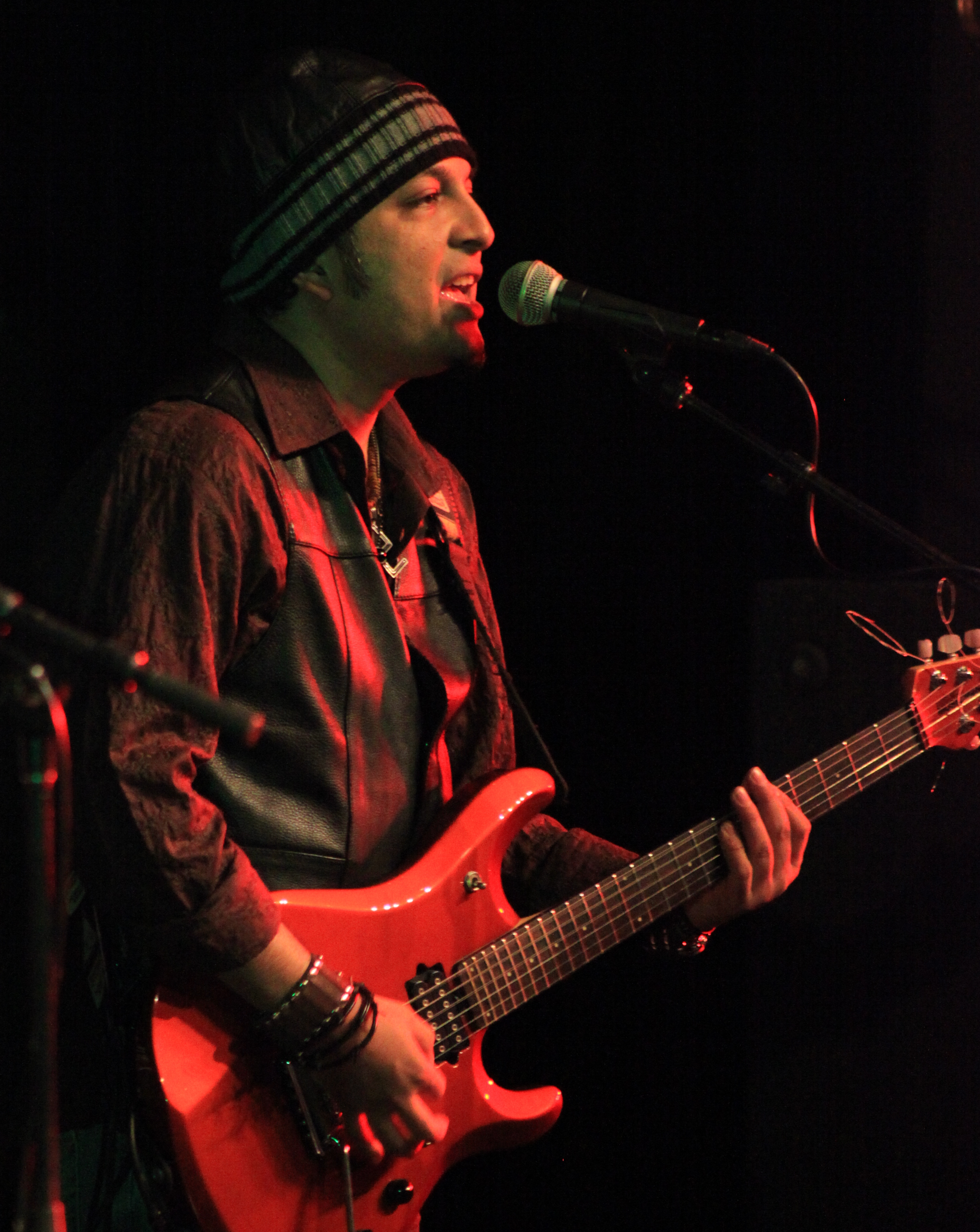 Iqbal Asif Jewel in Seattle in 2012